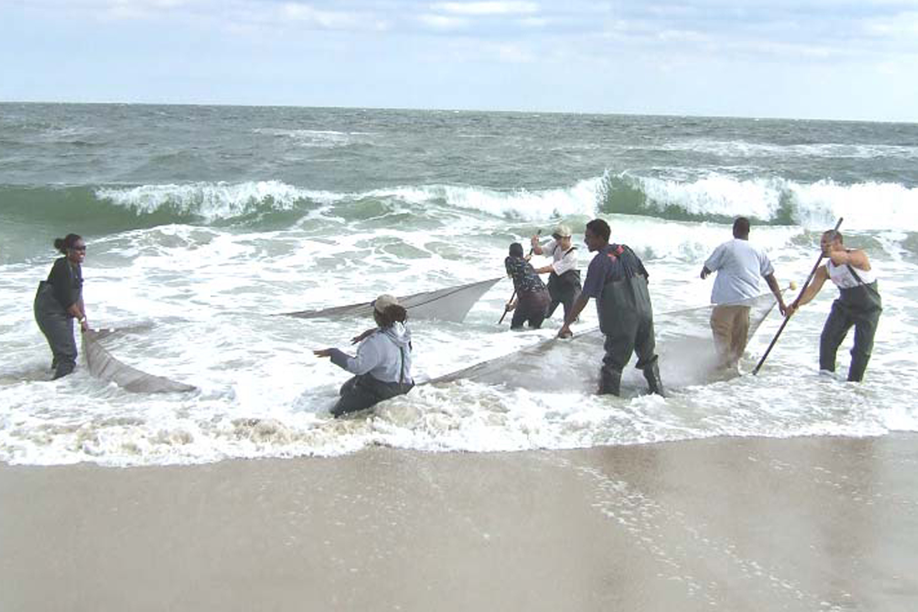 Greetings from Maryland's eastern shore! NOAA's Office of Education sent this photograph of fieldwork led by Dr. Joseph Love, a faculty researcher with the NOAA Living Marine Resources Cooperative Science Center at the University of Maryland Eastern Shore. Dr. Love took his undergraduate and graduate students on a two-day field trip to Assateague Island for a variety of sampling activities. The students are sampling for fishes in the surf zone on the island. The mission of the Center is to conduct research congruent with the interests of NOAA Fisheries and to prepare students for careers in research, management, and public policy that support the sustainable harvest and conservation of our nation's living marine resources. The Center is a part of NOAA's Educational Partnership Program with Minority Serving Institutions. To date, 311 University of Maryland Eastern Shore students have participated in the program and several are now NOAA researchers or scientists. Pictured are (from left): Danielle Taylor, Dr. Joseph Love, Ryan Corbin, Greg Oliver, Brandon Fortt, and Reginald Black.